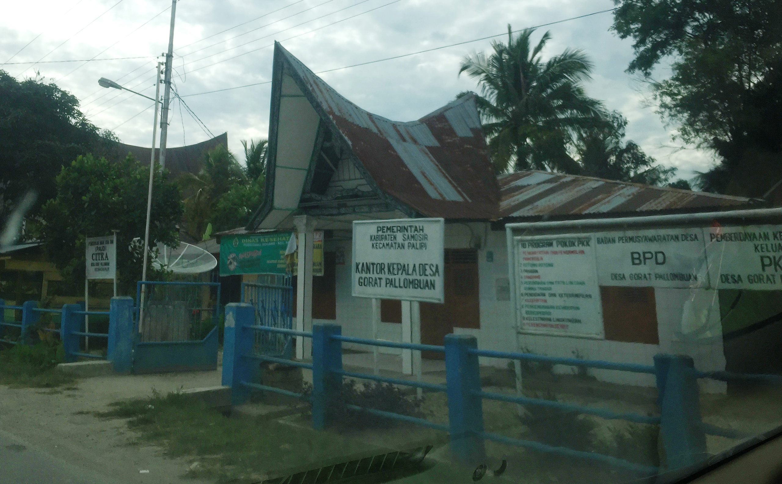 office of Gorat Pallombuan, Palipi, Samosir